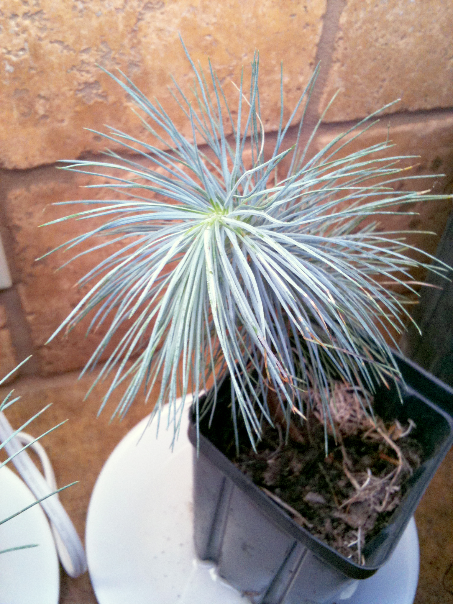 Pinus maximartinezii seedling. Cultivated, Texas.